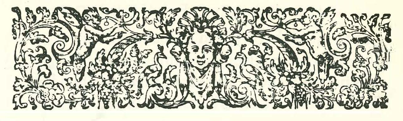 Printer's ornament used by Richard Field c. 1590s